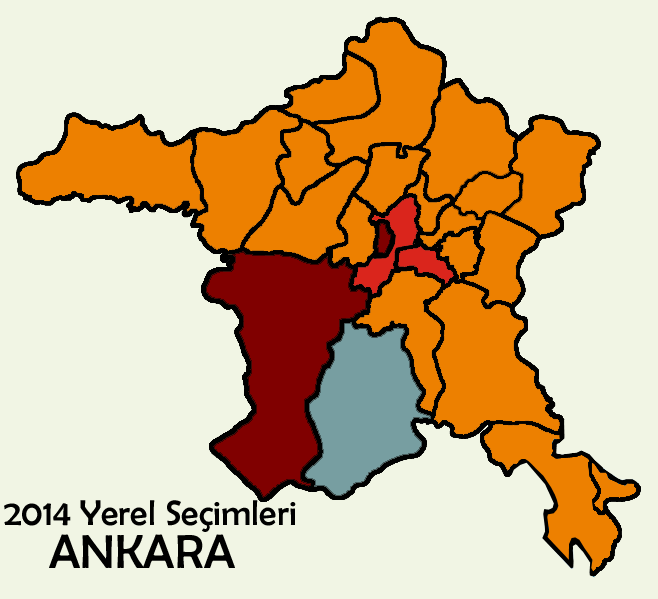 2014 yerel seçimlerinde Ankara